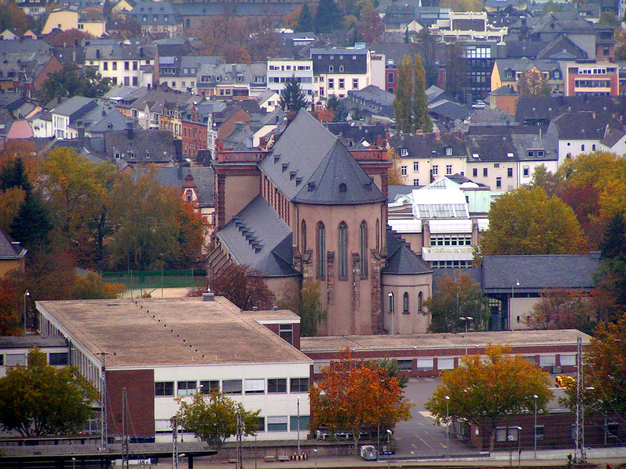 Reichsabtei St. Maximin, Trier, Germany